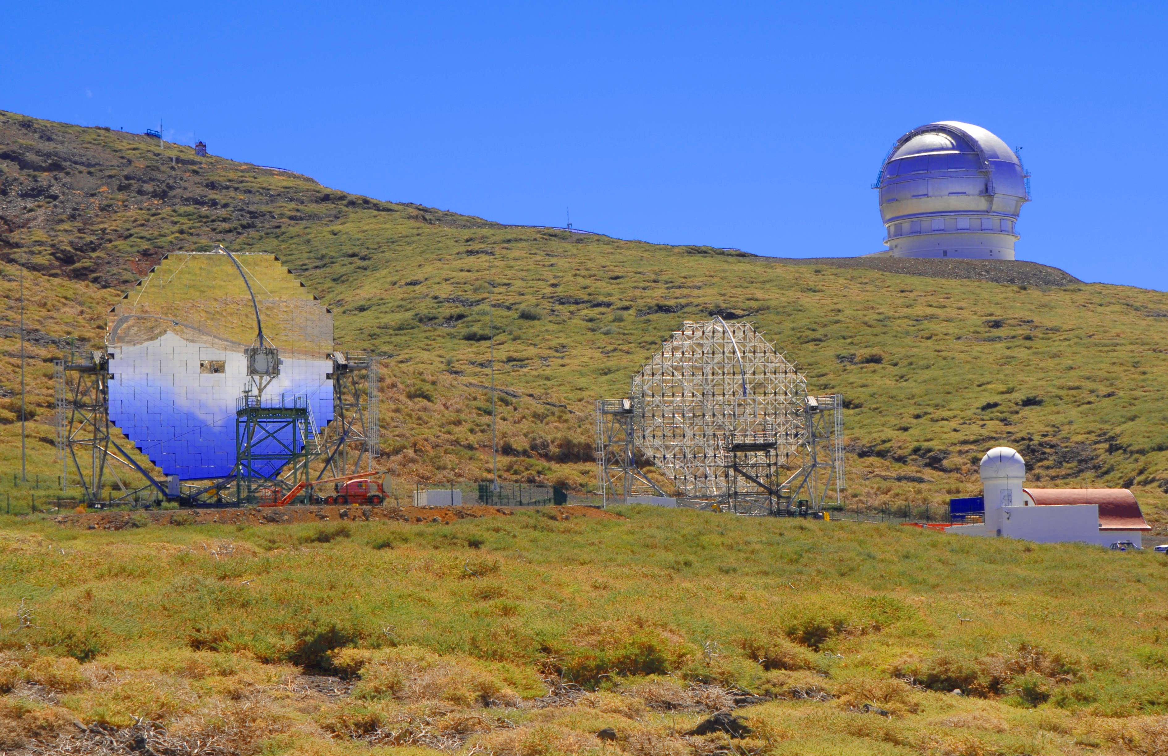 MAGIC telescope, La Palma, Canary Islands. In the background to the right, Gran Telescopio Canarias (GRANTECAN) can be seen